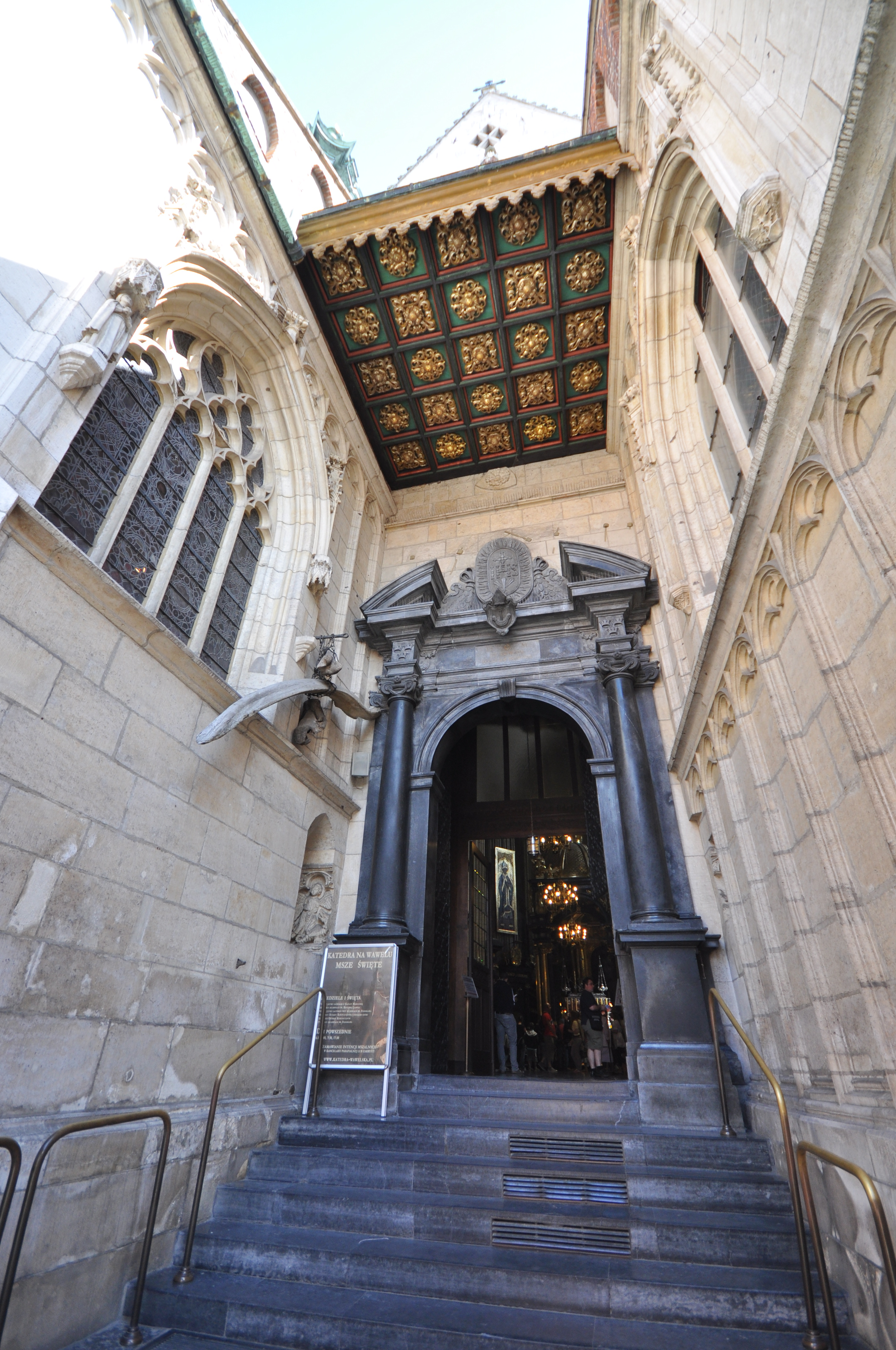 The Royal Archcathedral Basilica of Saints Stanislaus and Wenceslaus on the Wawel Hill (Polish: królewska bazylika archikatedralna śś. Stanisława i Wacława na Wawelu), also known as the Wawel Cathedral (Polish: katedra wawelska), is a Roman Catholic church located on Wawel Hill in Kraków, Poland. More than 900 years old, it is the Polish national sanctuary and traditionally has served as coronation site of the Polish monarchs as well as the Cathedral of the Archdiocese of Kraków. Pope John Paul II offered his first Mass as a priest in the Crypt of the Cathedral on 2 November 1946. The current, Gothic cathedral, is the third edifice on this site: the first was constructed and destroyed in the 11th century; the second one, constructed in the 12th century, was destroyed by a fire in 1305. The construction of the current one begun in the 14th century on the orders of bishop Nanker